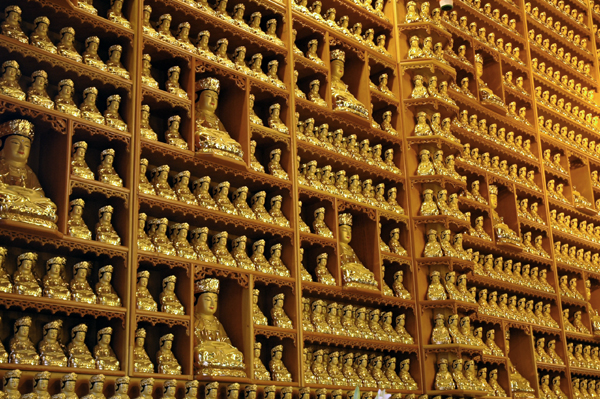 Bongeunsa, a Buddhist temple of Jogye Order located in Samseong-dong, Gangnam-gu, Seoul, South Korea.